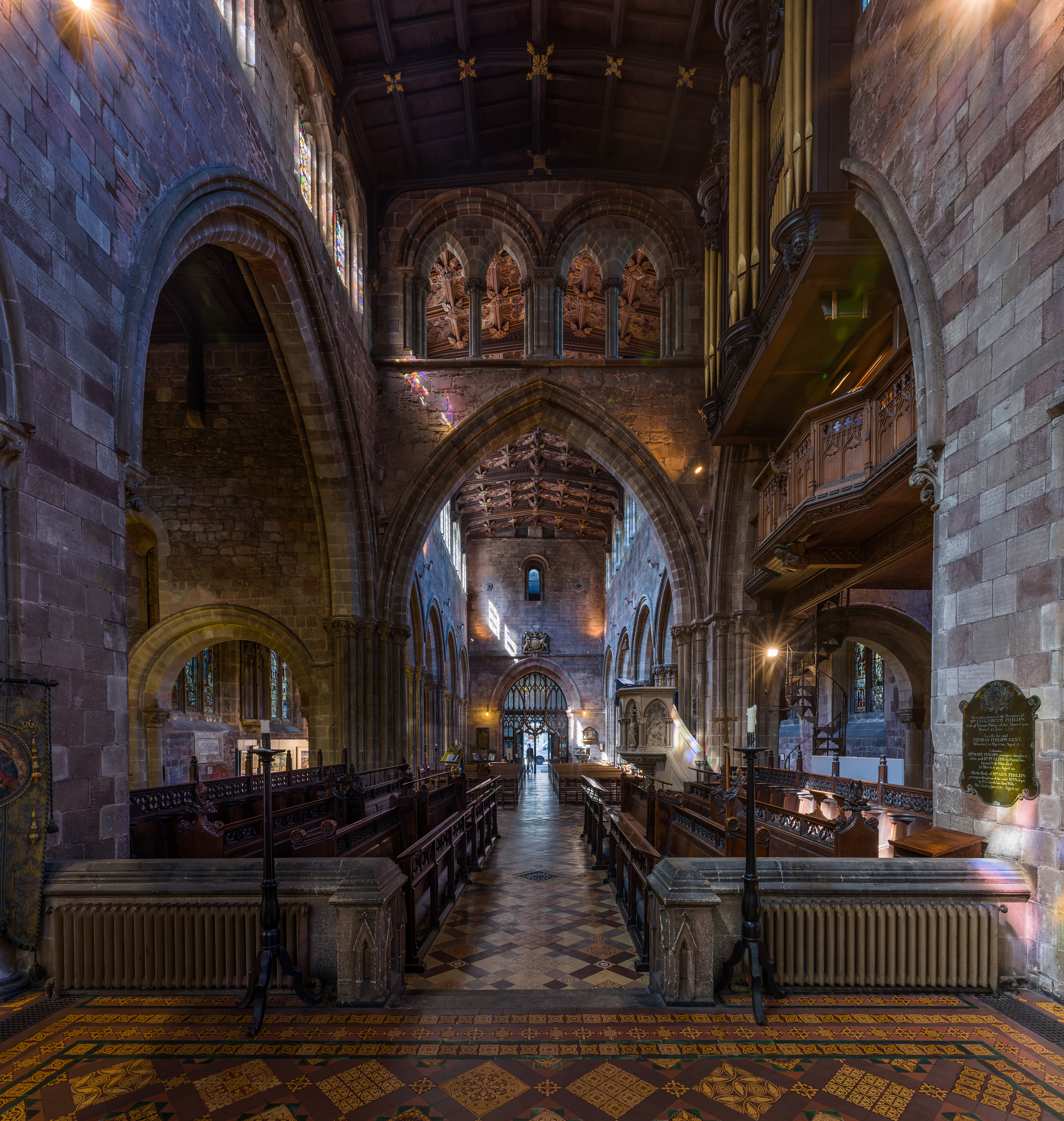 The choir, organ and pulpit of St Mary's Church in Shrewsbury, Shropshire, England.